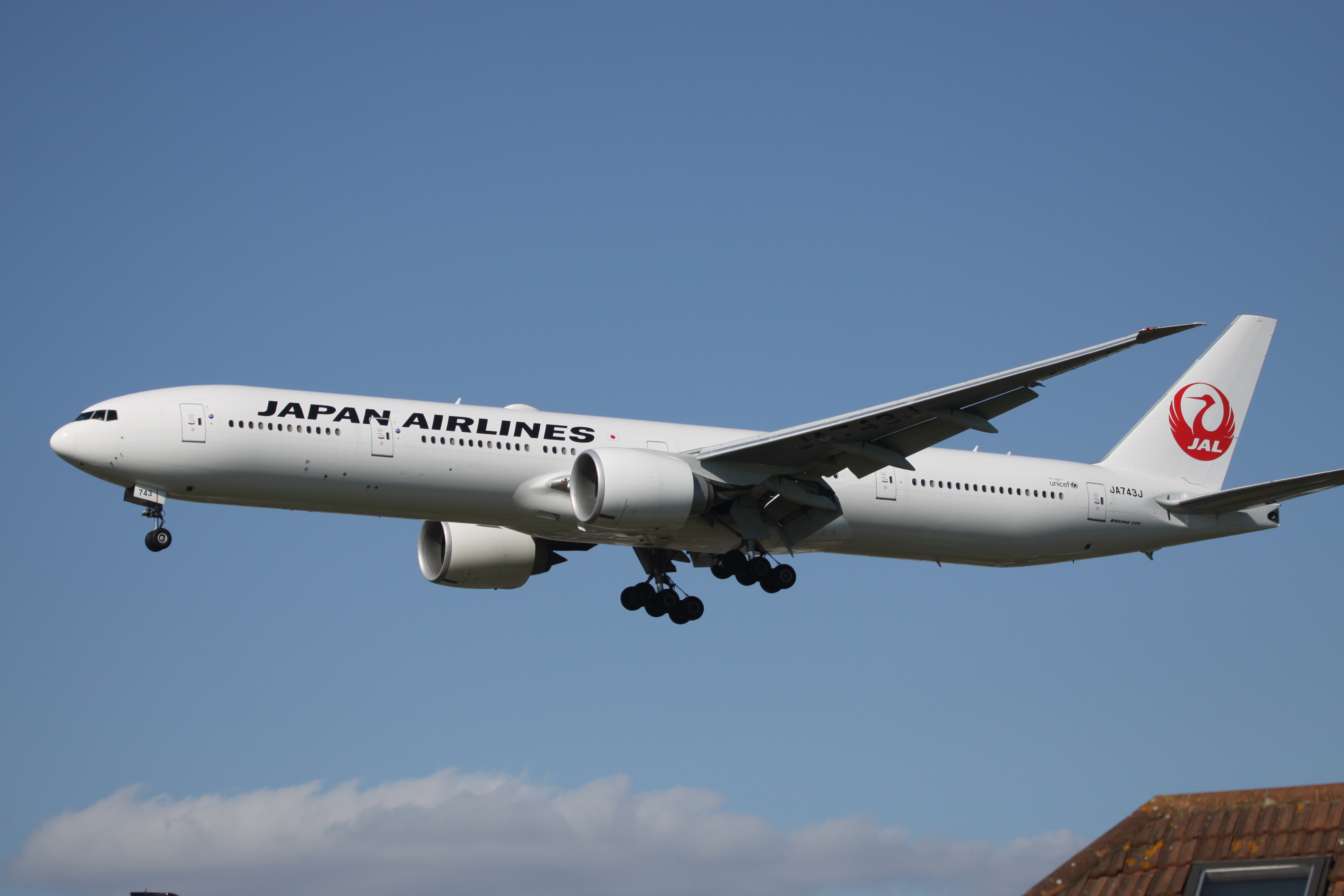 At London Heathrow